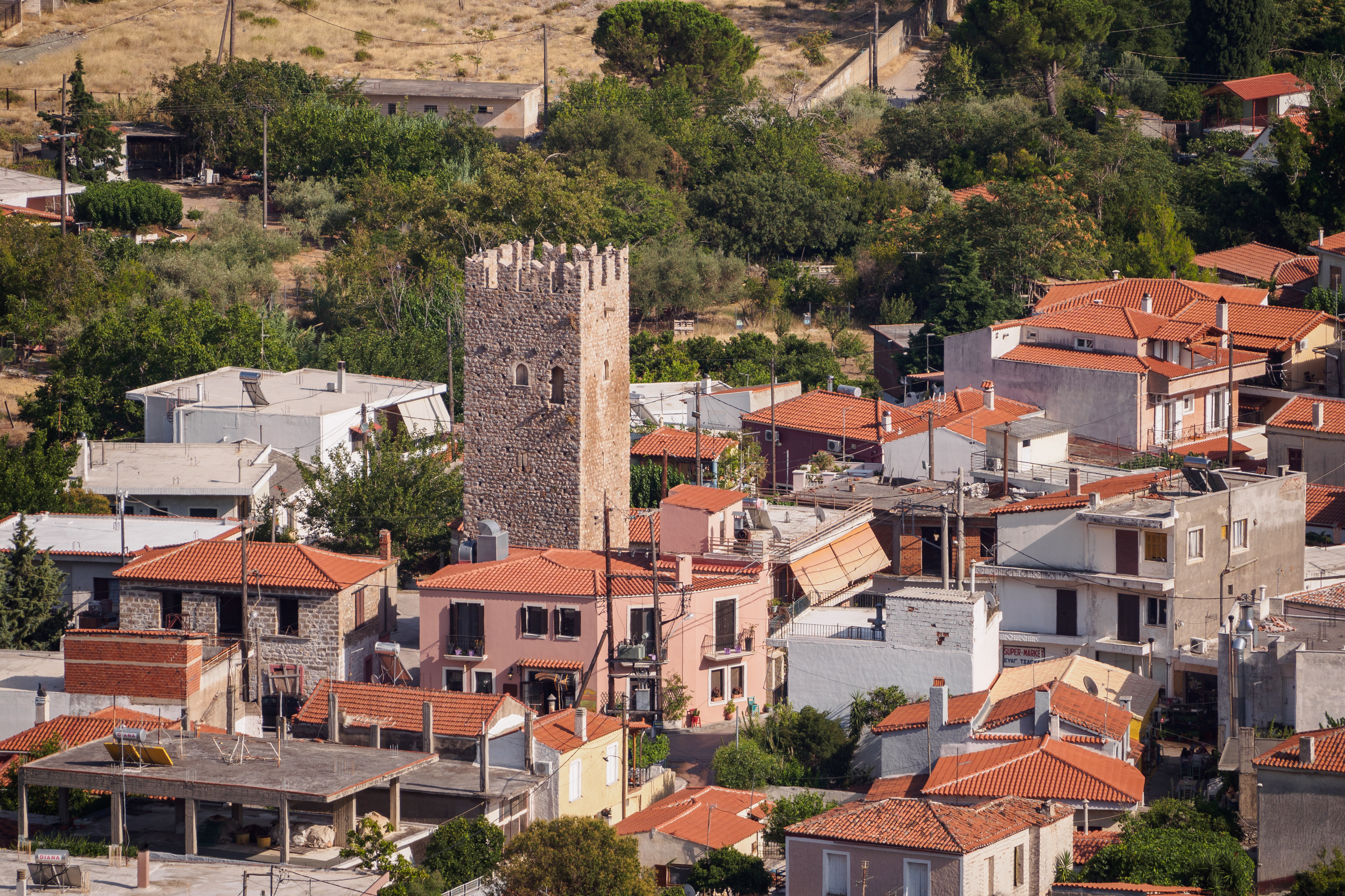 View of the tower of Politika, Euboea, from the location of Profitis Elias chapel.